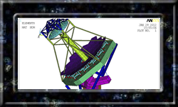 Preliminary evaluation of the telescope structure behavior by means of Finite Element Analyses